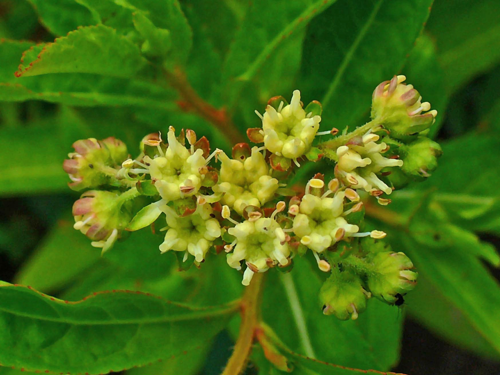 Penthorum sedoides, Penthoraceae, Virginian Stonecrop, inflorescence.